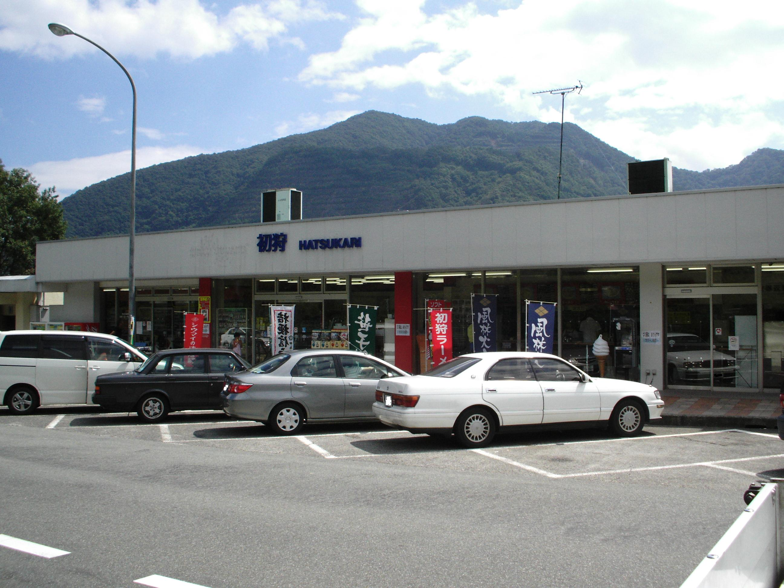 Chuo Expressway Hatsukari Parking Area